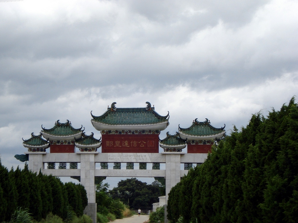 The entrance to King Taksin's clothes tomb in Huafu Village, Chenghai District, Shantou, Guangdong Province, China